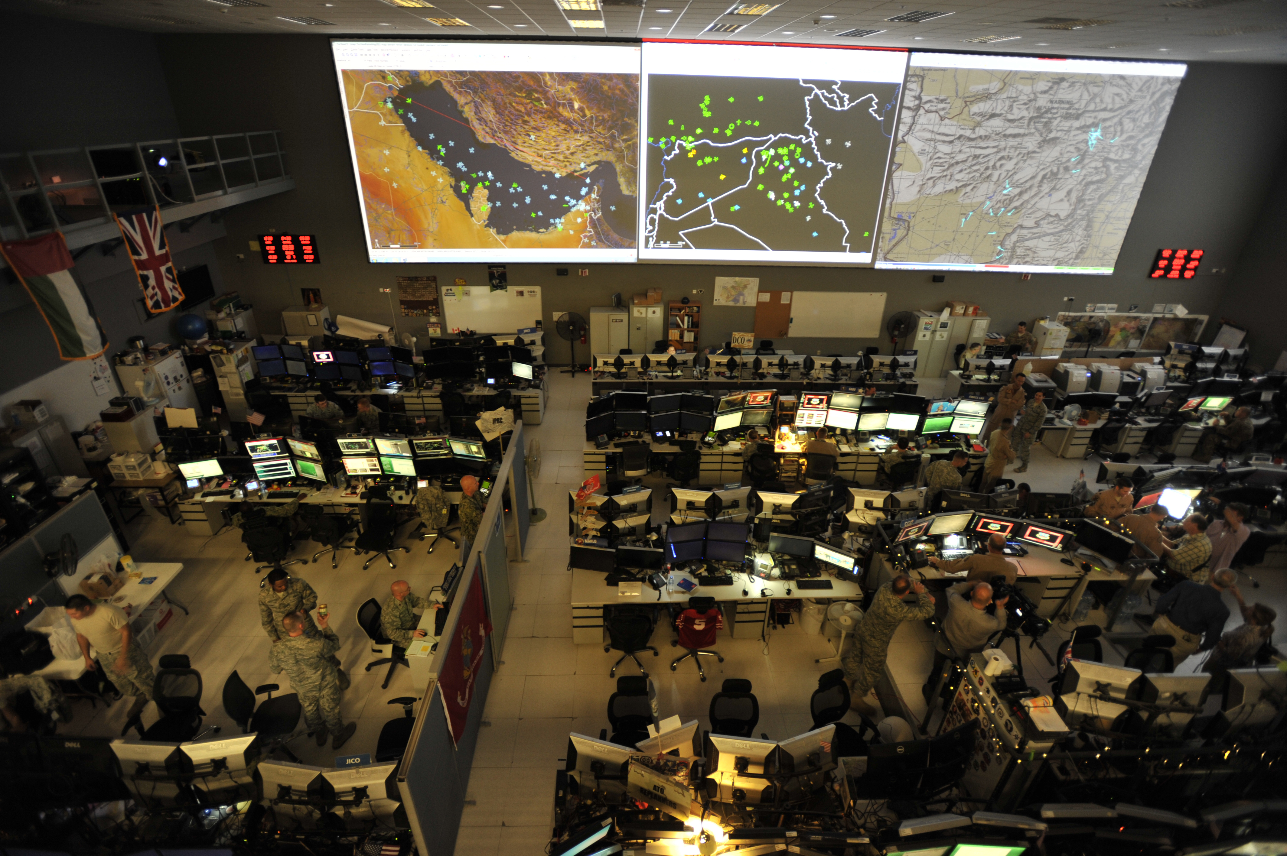 Combined Air Operations Center (CAOC) at Al Udeid Air Base, Qatar, provides command and control of air power throughout Iraq, Syria, Afghanistan, and 17 other nations. The CAOC is comprised of a joint and coalition team that executes day-to-day combined air and space operations and provides rapid reaction, positive control, coordination, and de-confliction of weapon systems. (U.S. Air Force photo by Tech. Sgt. Joshua Strang) Unit: U.S. Air Forces Central Command Public Affairs